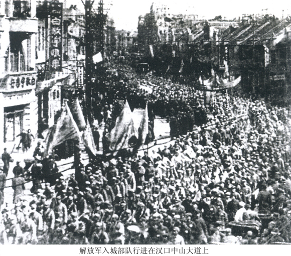 People's Liberation Army troops entered to Zhongshan Avenue, Hankou on May 16, 1949. 中文（中国大陆）: 1949年5月16日，中国人民解放军进驻汉口。图为解放军入城部队进入汉口中山大道。